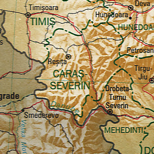 Map of Caraș-Severin County, Romania.